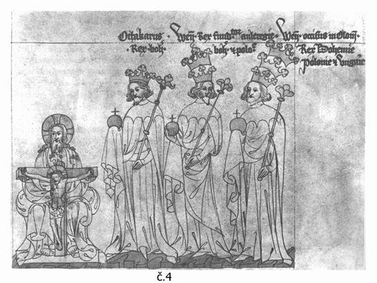 House of Přemyslid